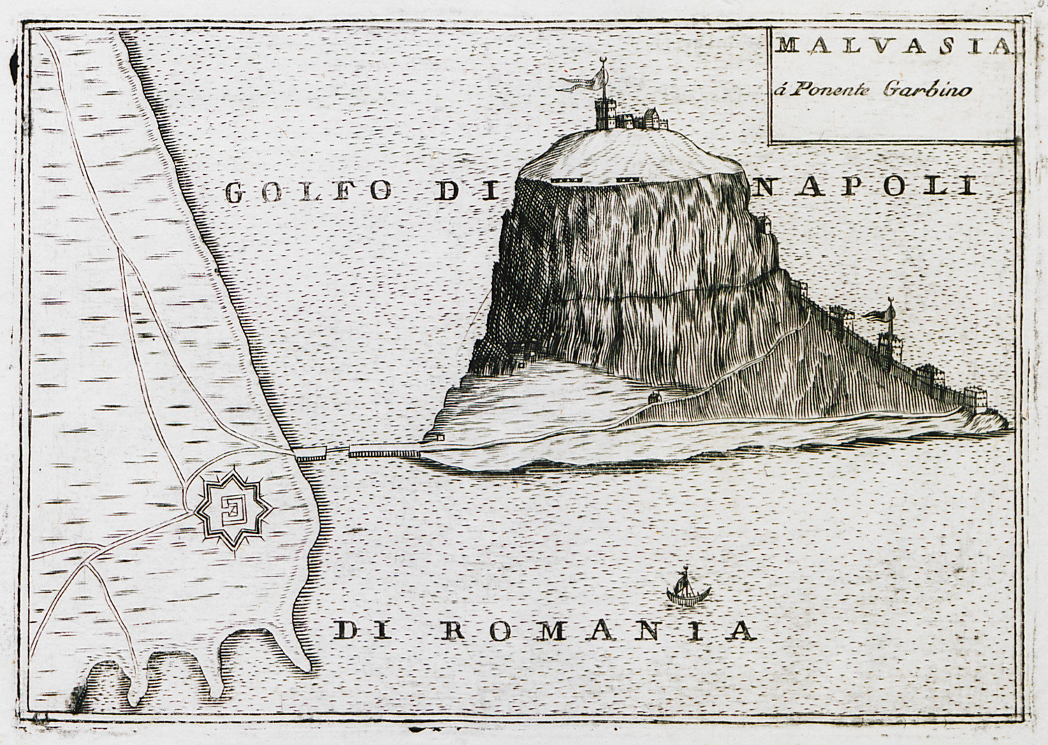 Vincenzo Coronelli. Memoire istoriografiche delli regni della Morea e Negroponte…, Venice, 1686